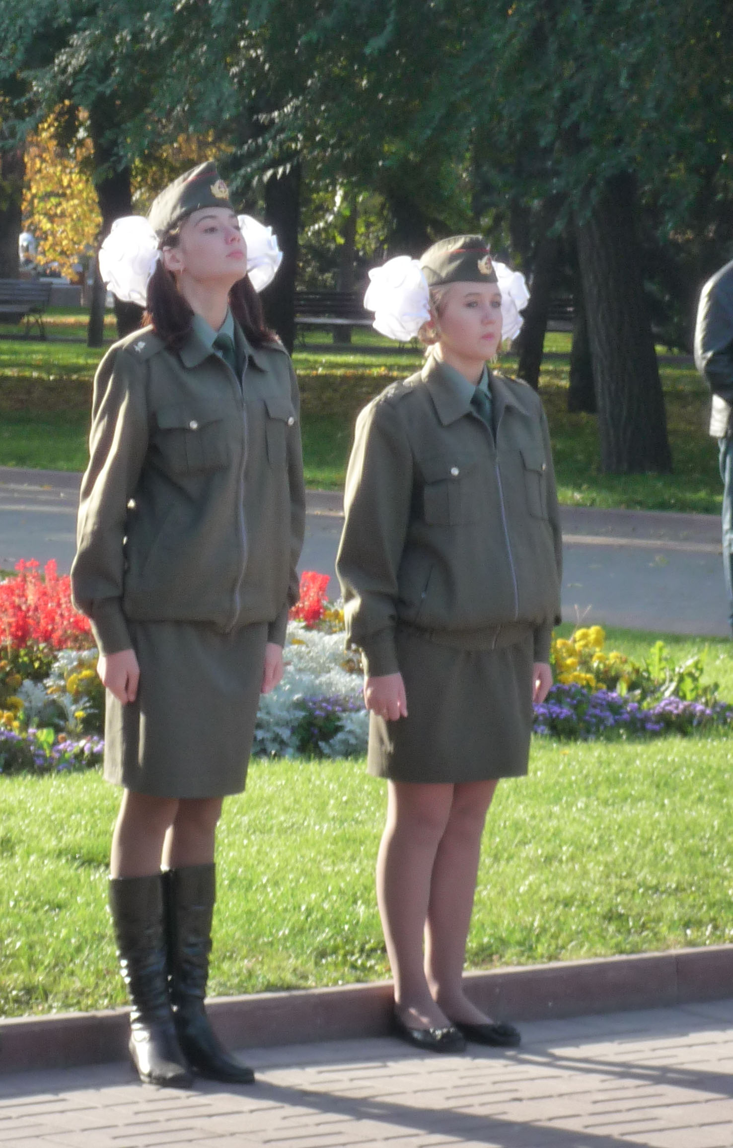 Volgograd Changing the guard 02